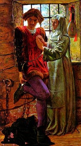 Claudio and Isabella are characters from Shakespeare’s Measure for Measure.